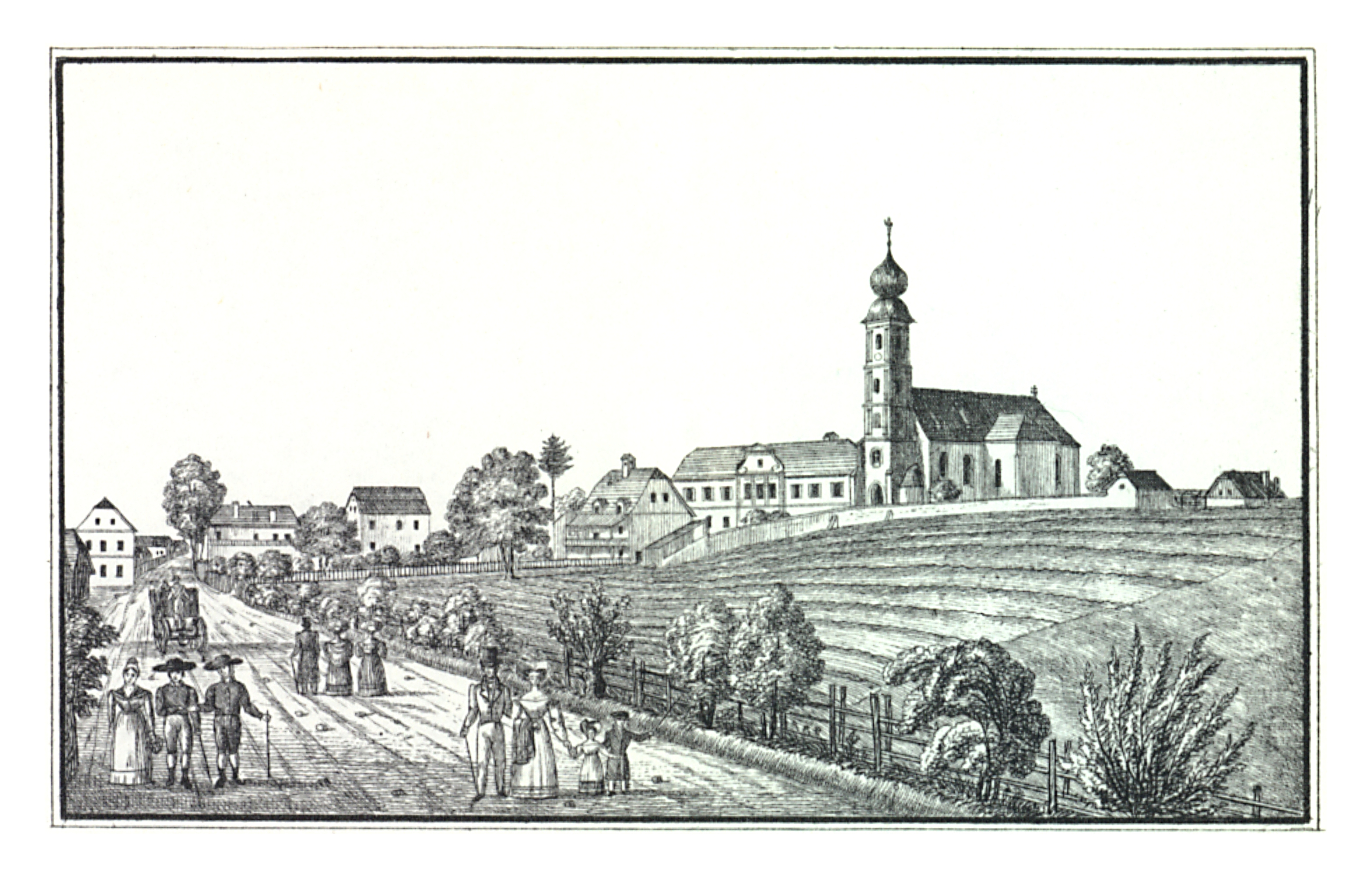 J. F. Kaiser - lithographirte Ansichten der Steyermärkischen Städte, Märkte und Schlösser, Graz 1824-1833 Joseph Franz Kaiser (1786–1859) Alternative names J. F. KaiserDescriptionAustrian printer and editorDate of birth/death 11 March 1786 19 September 1859Location of birth/death Graz (Styria) GrazAuthority control : Q1499963 VIAF: 30629353 ISNI: 0000 0000 3083 0153 LCCN: n87141671 GND: 129880159 NLP: A24960305 WorldCat creator QS:P170,Q1499963 . Scanprojekt Community Projektbudget 2012 This scan or this PDF-file was created within the GLAM-project Bookscanning, supported by Wikimedia Germany and Wikimedia Austria as a part of the community-project to capture books, documents and pictures which are not eligible to copyright or for which the copyright has expired. This document describes or depicts an object which is located in Austria today. Send requests for uncompressed scans to Hubertl. This work is in the public domain in its country of origin and other countries and areas where the copyright term is the author's life plus 100 years or less. You must also include a United States public domain tag to indicate why this work is in the public domain in the United States. This file has been identified as being free of known restrictions under copyright law, including all related and neighboring rights.